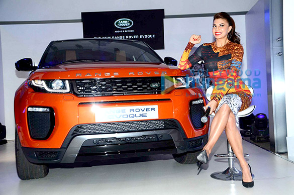 at unveils the new Range Rover Evoque